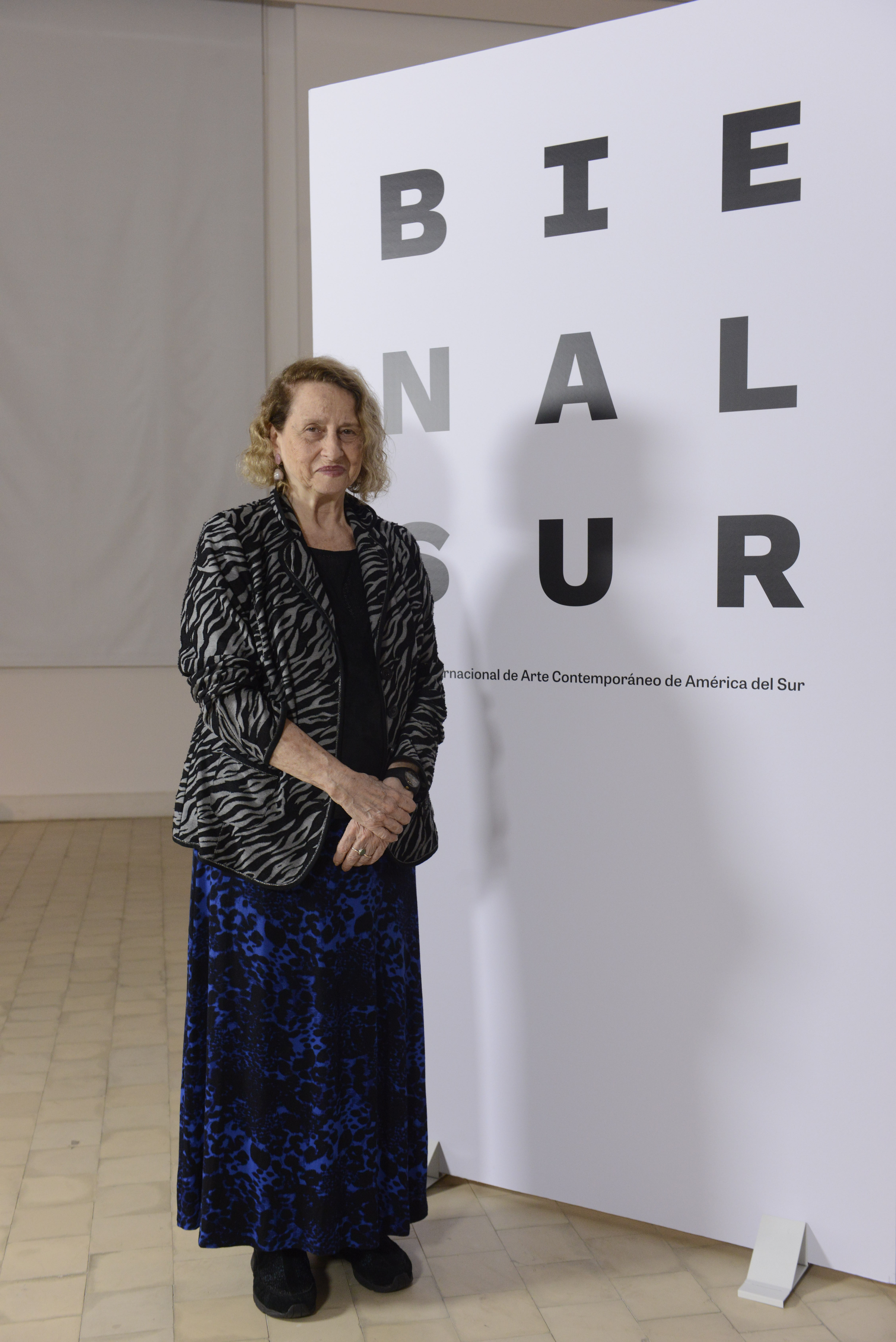 artist of Jewish-Polish ancestry, and professor at the Escola de Artes Visuais do Parque Lage. She lives in Rio de Janeiro, and her work, characterized by the use of different media, is held by galleries and private collections in the USA, China, Brazil and Europe.